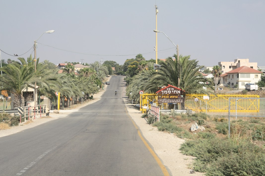 Ahisamakh